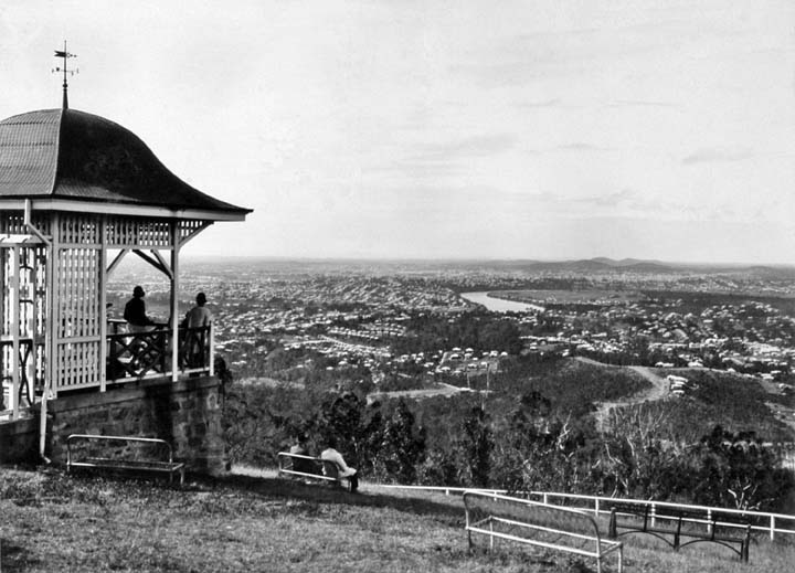 Brisbane looking from the Mount Coot-tha Lookout, Sir Samuel Griffith Drive, Mount Coot-tha.